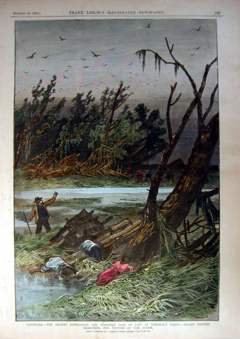 "Louisiana.- The Recent Indunation and Terrible Loss of Life at Johnson's Bayou- Relief Parties Searching For the Victims of the Storm". Engraving showing aftermath of the Great Hurricane of October 1886, which struck around the Louisiana/Texas border.